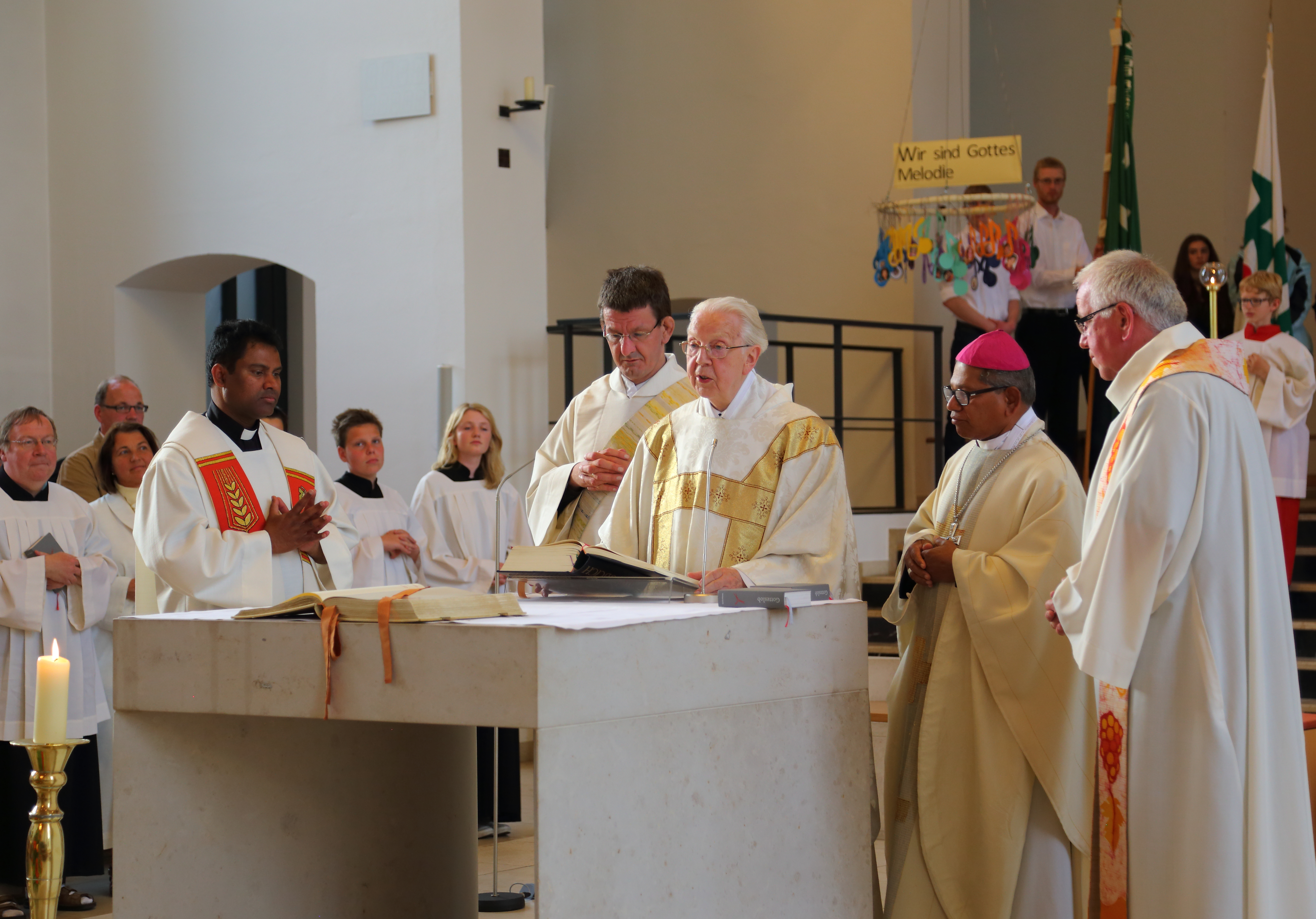 A Festive Mass in the Roman Catholic St Dionysius Parish Church (Pfarrkirche St. Dionysius) in Recke, Kreis Steinfurt, North Rhine-Westphalia, Germany. The Prayer After Communion is proclaimed by the concelebrants (from left to right) Father Gnana Prakasham Chinnabathini, Deacon Michael Spliethoff, Father em. Werner Heukamp, Archbishop Thumma Bala (Archbishop of Hyderabad, India) and Father Jürgen Heukamp. The Festive Mass was conducted on the occasion of the 85th birthday of Father Werner Heukamp and his 20 years of serving in Recke.